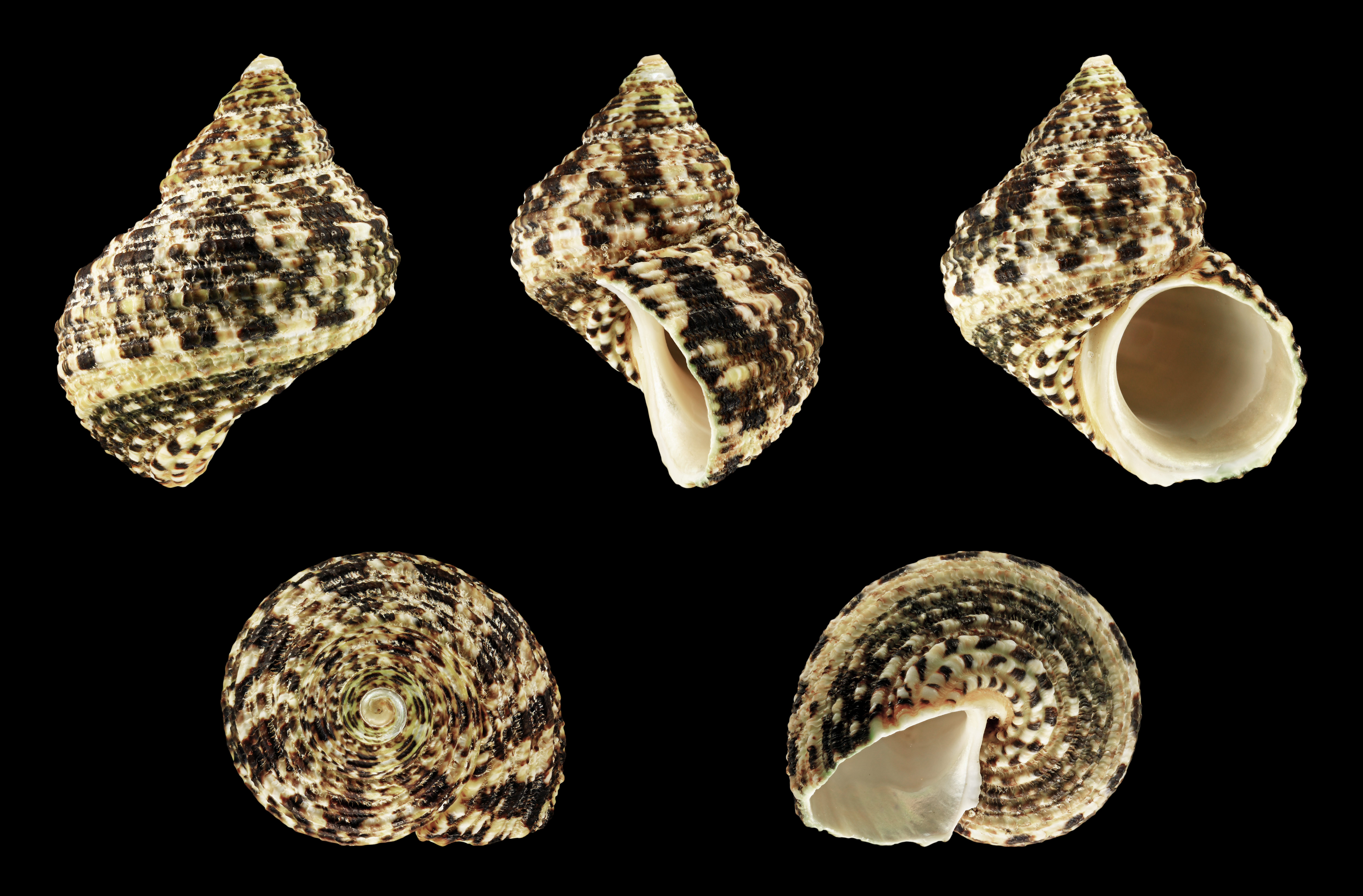 Brown Dwarf Turban; Height 4.8 cm; Originating from the Philippines; Shell of own collection, therefore not geocoded.